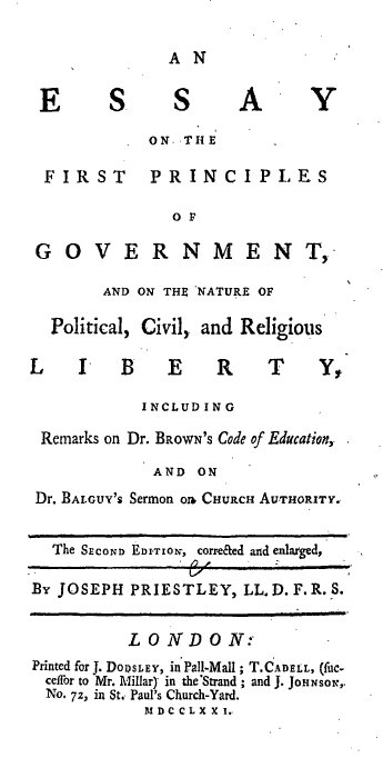 Title page from Joseph Priestley's First Principles of Government